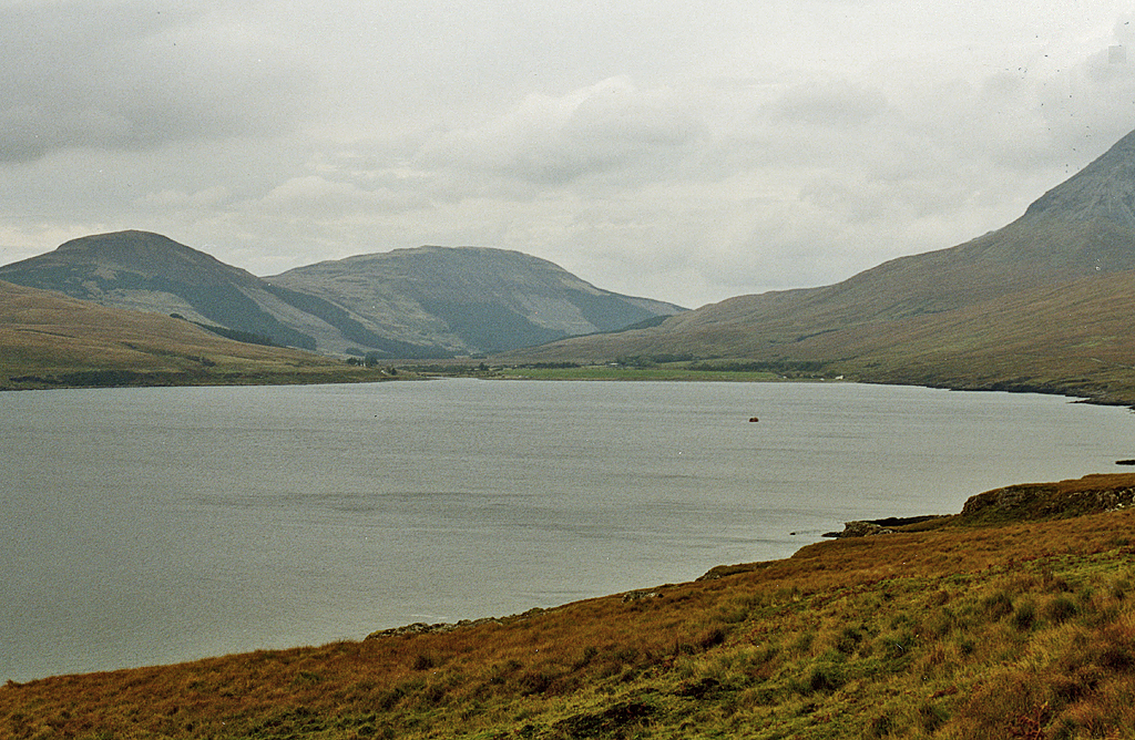 Loch Brittle Looking towards the head of the loch from the coastal path.